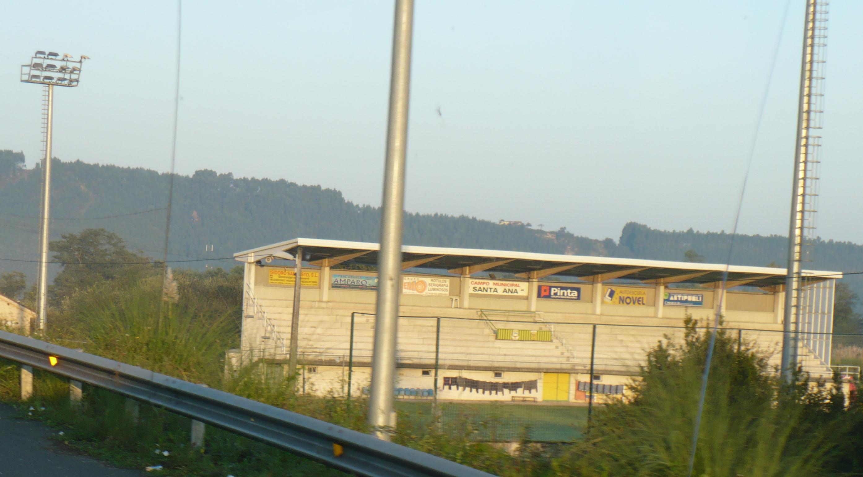 Santa Ana football ground, Tanos (Torlavega, Cantabria)